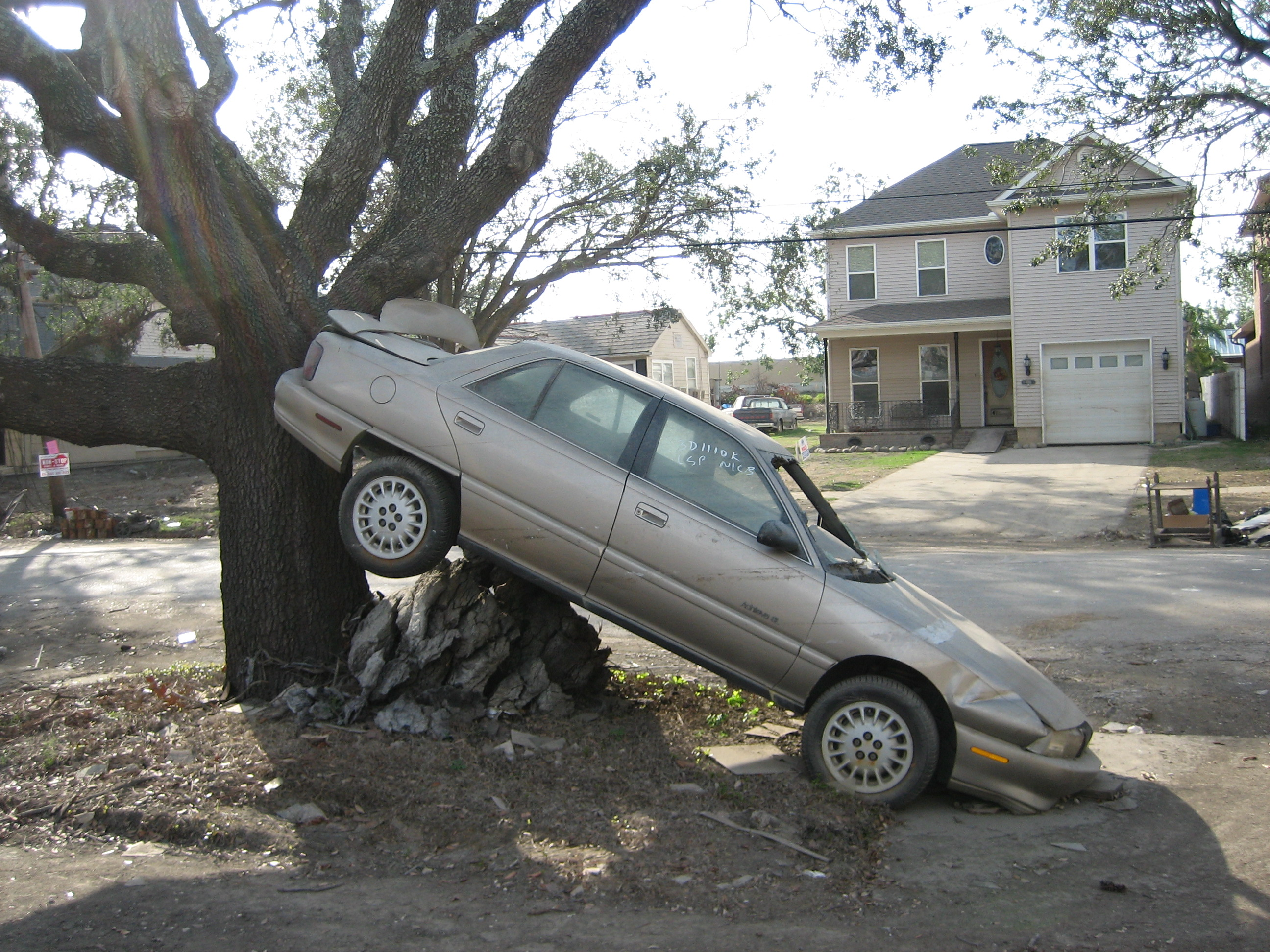 New Orleans after Hurricane Katrina: Flood damaged West End neighborhood: automobile knocked partially up a tree by flood waters; across street is house with little sign of damage other than high water lines halfway up lower story. Note: Beneath car is pile of dried muck from silt deposits from 17th Street Canal breech. The entire street was formerly coverd with similar muck, but it had been cleared before this photo was taken-- except for the patch beneath this car. See also: Image:BellaireTreecar1.jpg